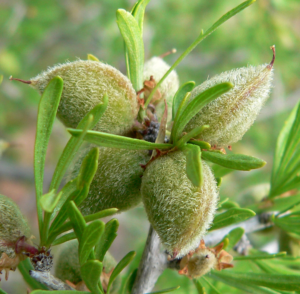 Prunus fasciculata in the southern end of Red Rock Canyon near Blue Diamond, Nevada